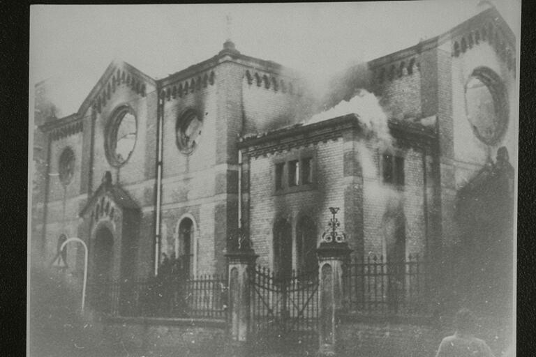 Description: Ludwigsburg Synagogue; Burning on Kristallnacht; November Pogroms Creator/Photographer: Unknown Medium: Black and white photographic print Date: 9 November 1938 Repository:Leo Baeck Institute Parent Collection: Ludwigsburg; Jewish Community Collection Call Number: AR 3321 Rights Information: No known copyright restrictions; may be subject to third party rights. For more copyright information, click here. Find more information about this image and others at CJH Archives and Library Catalog.